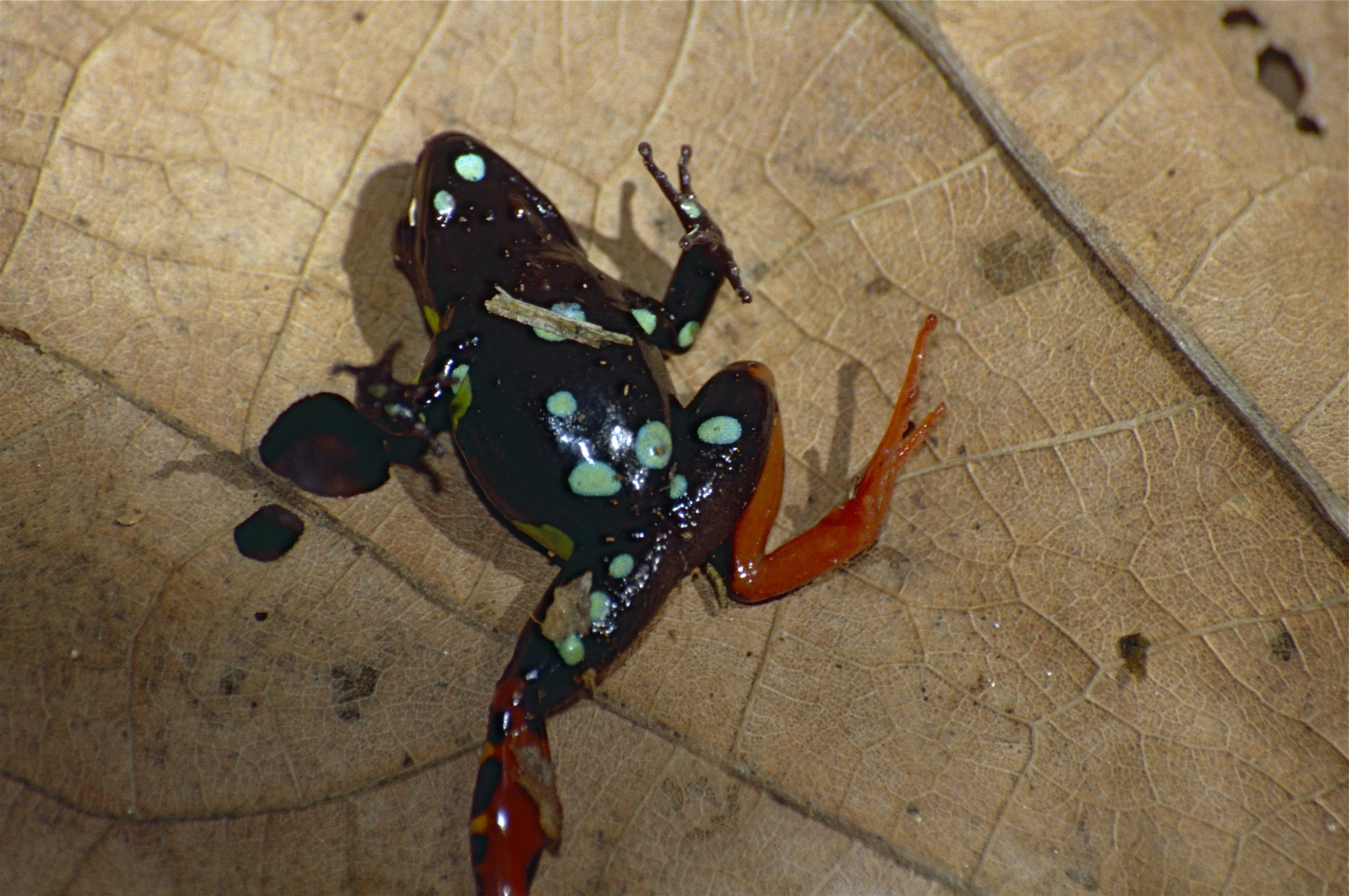 Mantadia Reserve, Perinet, MADAGASCAR Scanned Slide from 1998